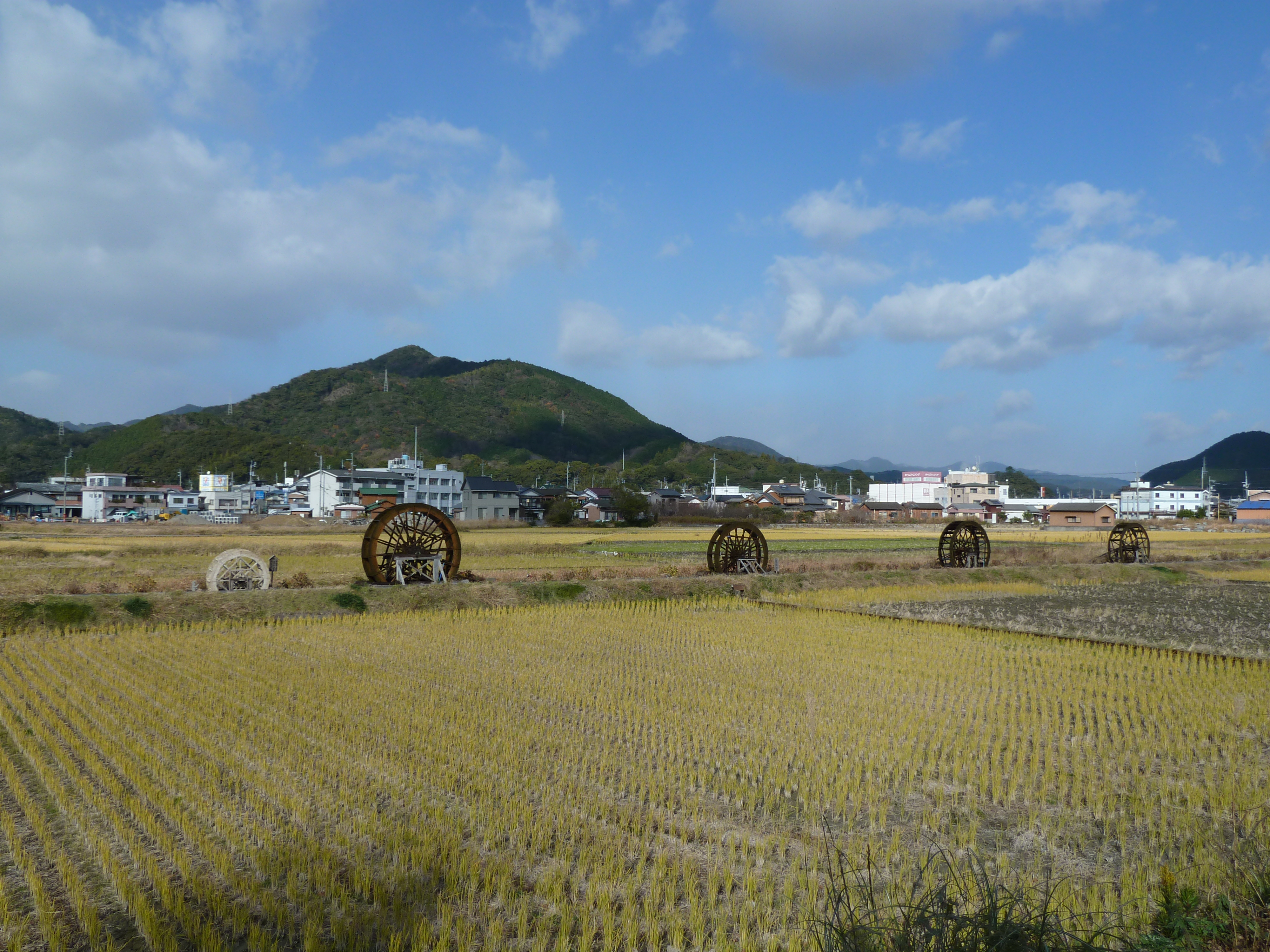 宿毛市内風景